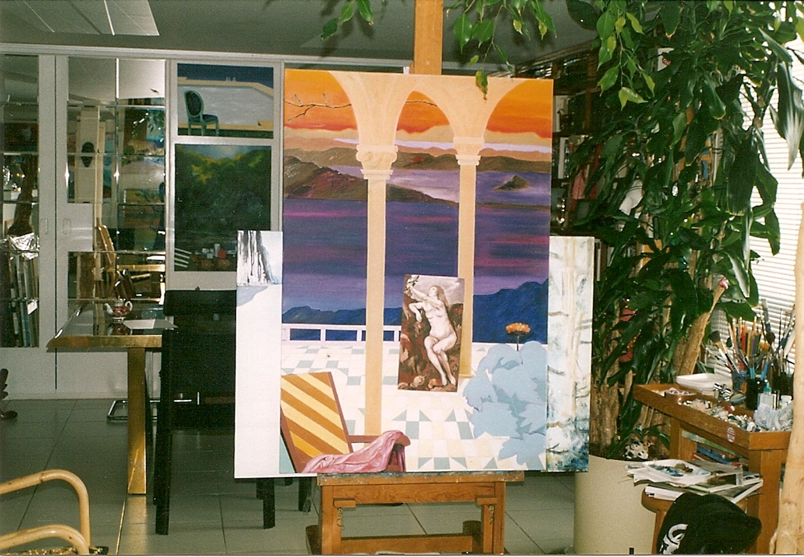 Ksenia Milicevic's studio in Bateau Lavoir